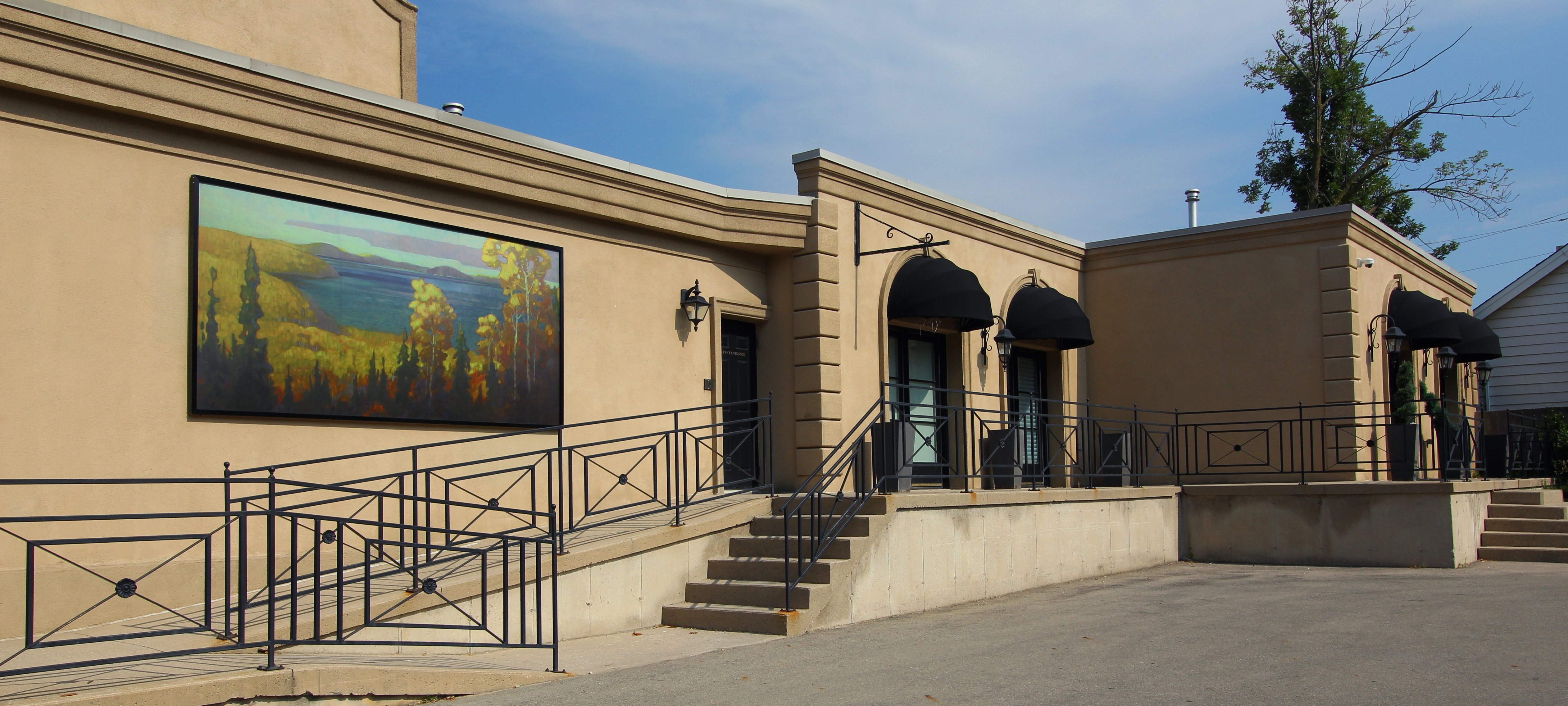 A photograph of True North Gallery in Waterdown, Ontario.